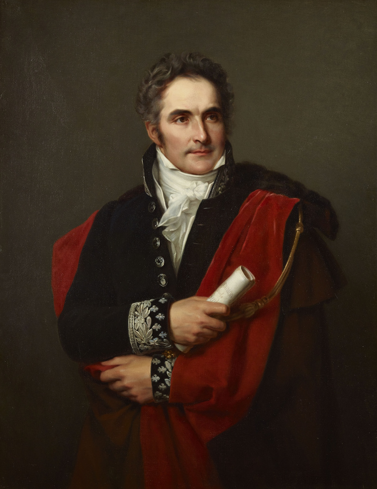 Portrait of Casimir Perier (1777-1832), french statesman and banker